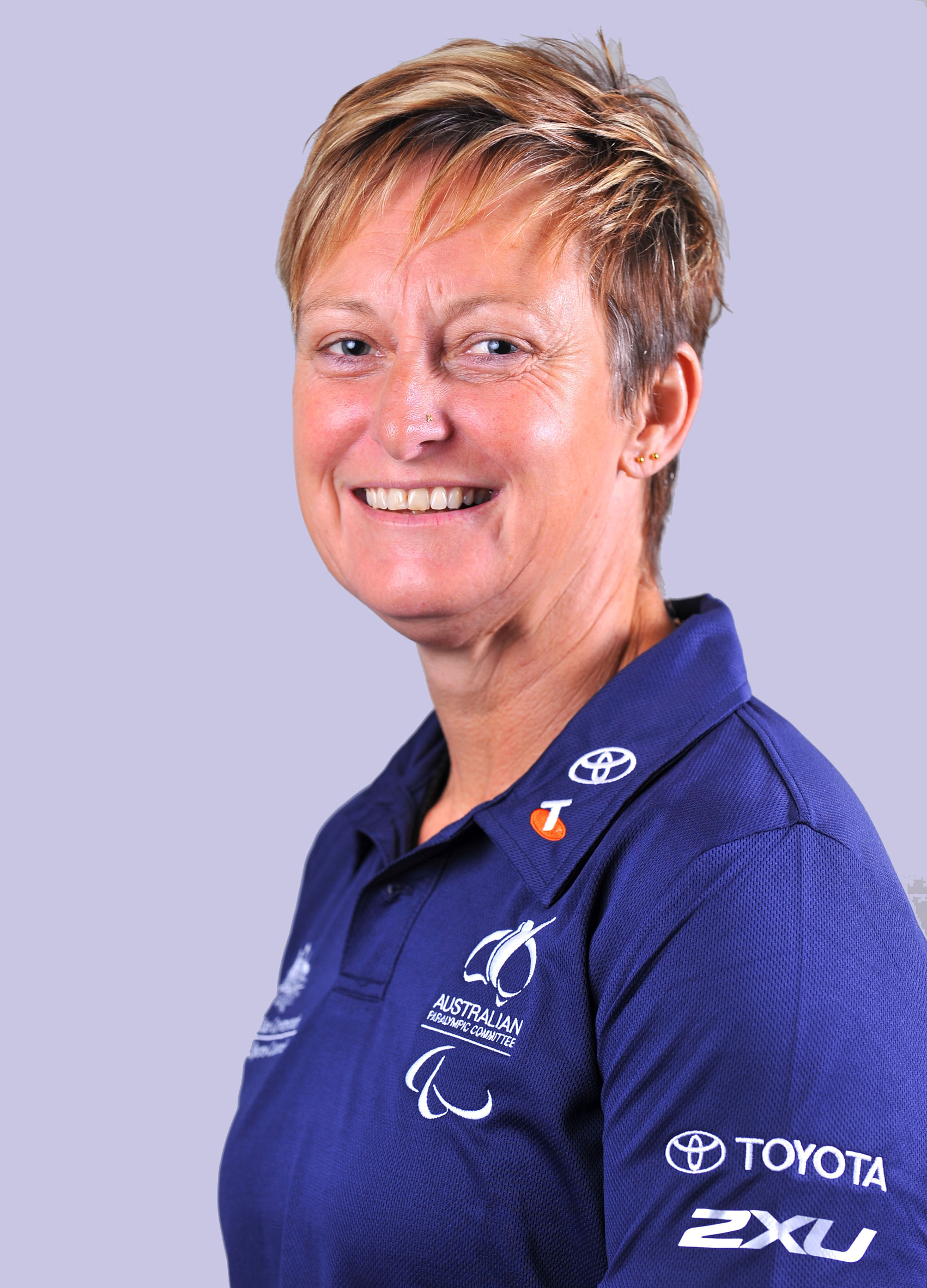 Portrait of Australian wheelchair tennis player Janel Manns, 2012 Australian Paralympic (shadow) Team athlete